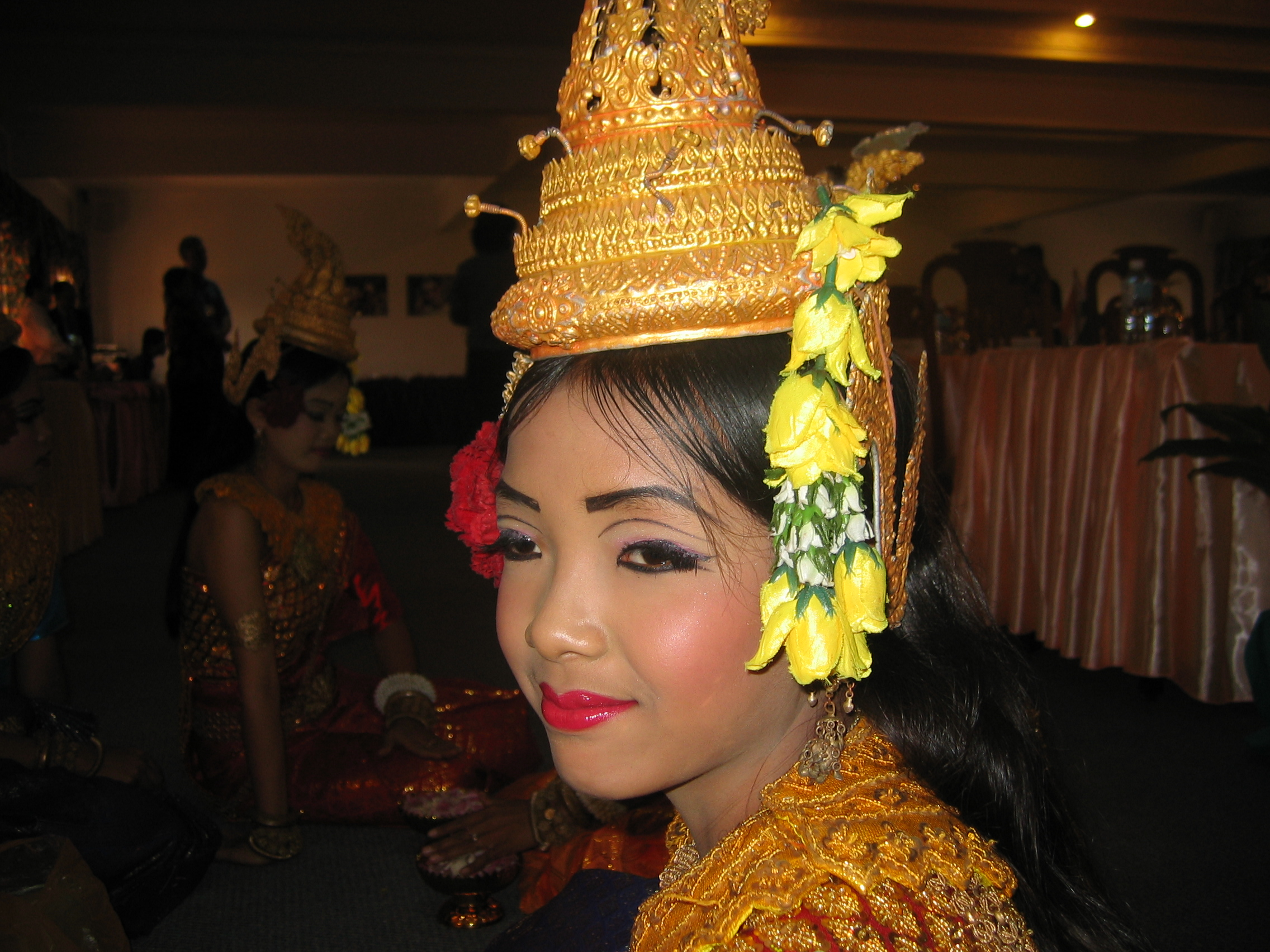 Lady dancer in Siem Reap.